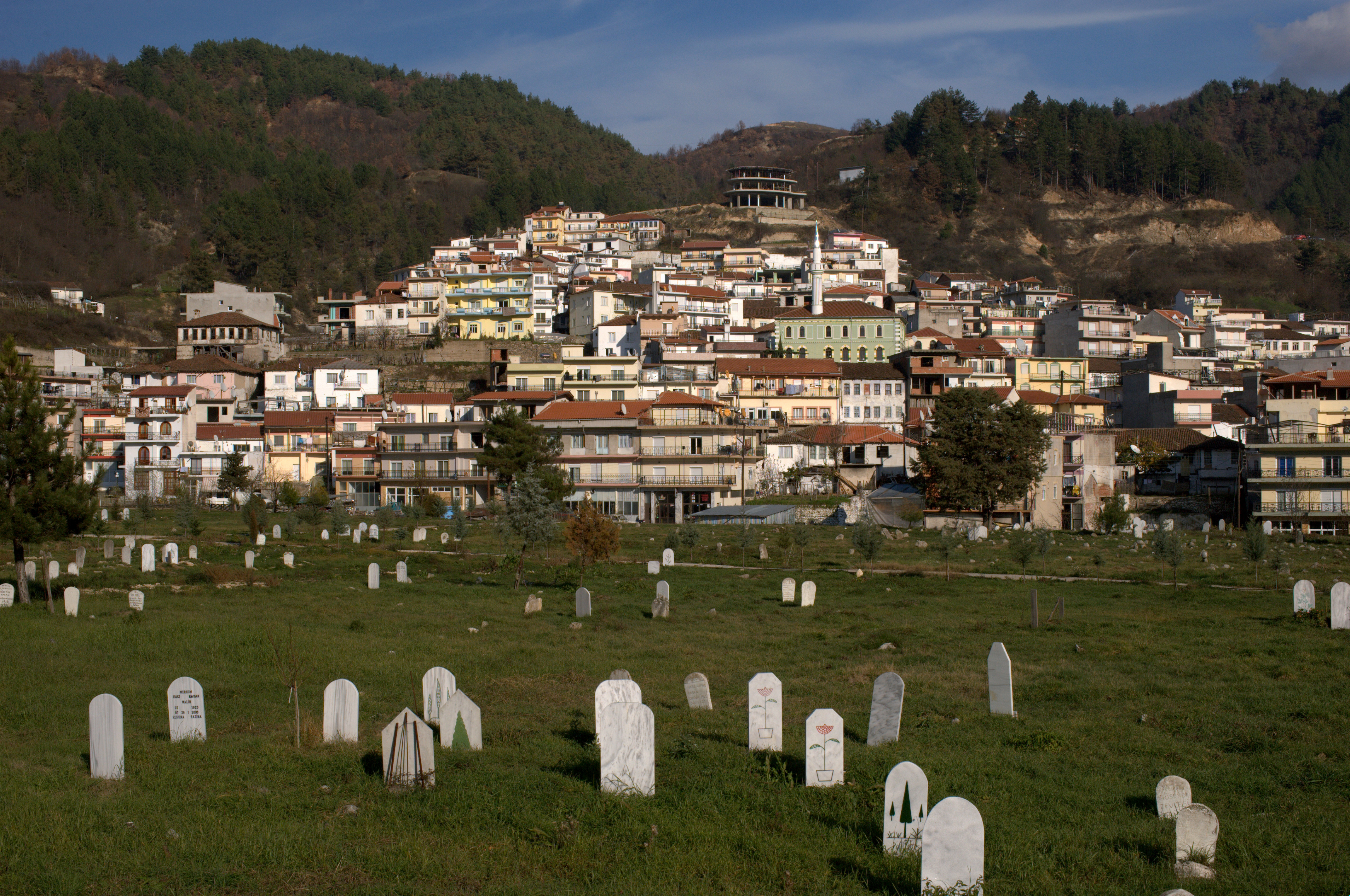 Ehinos pomak village, Xanthi, Thrace, Greece.